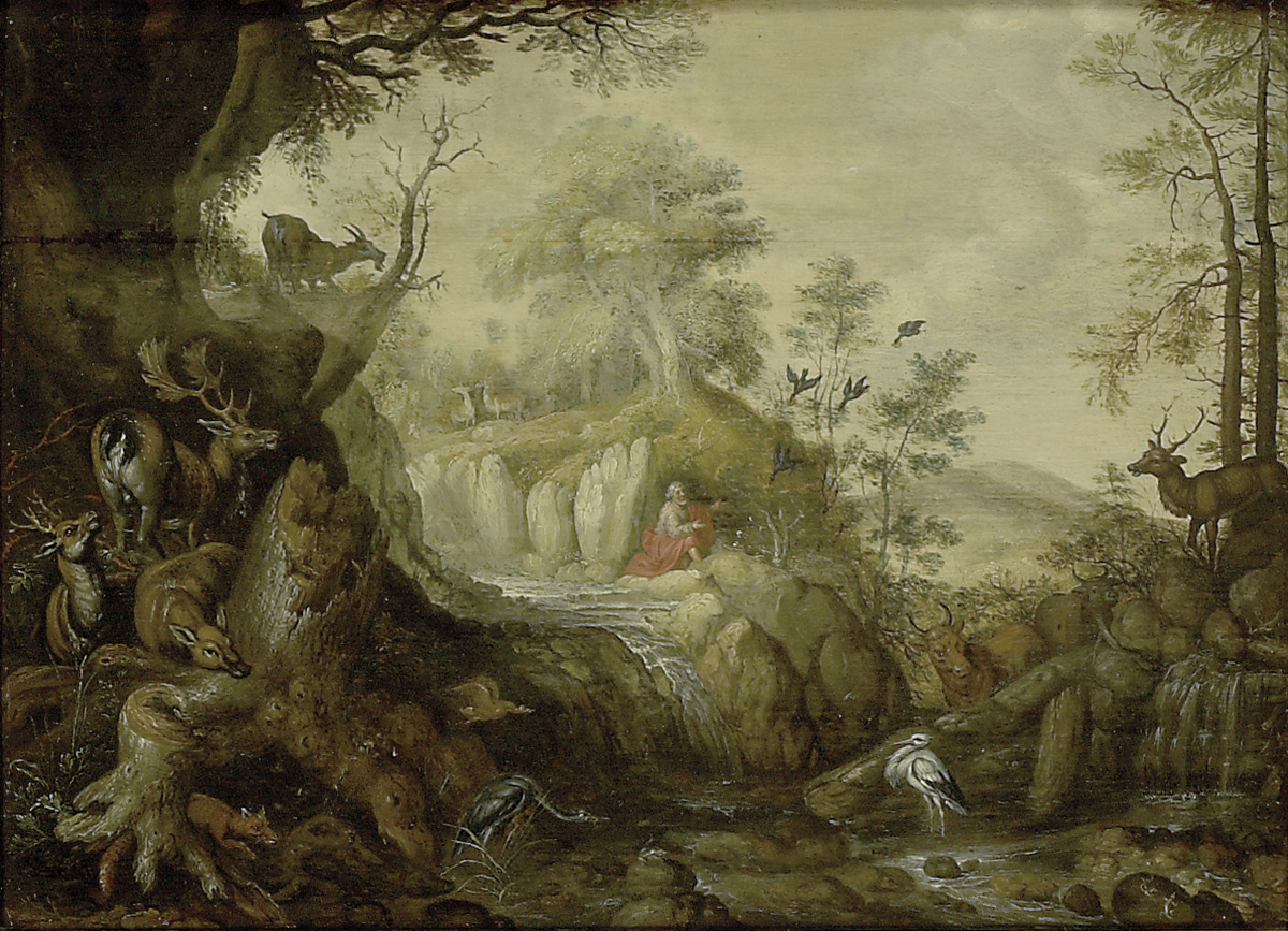 Savery, Roelandt; Elijah at the Brook Kerith; The Ashmolean Museum of Art and Archaeology